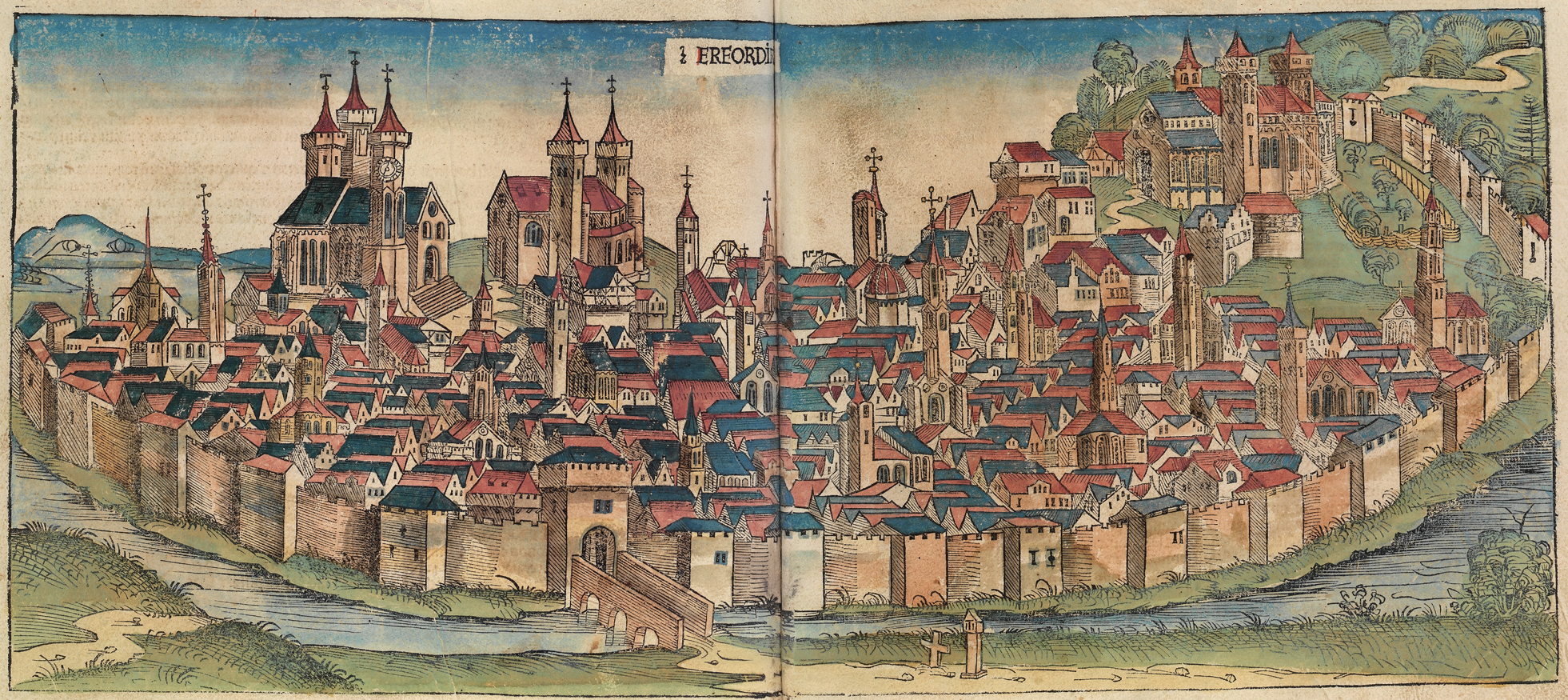 Woodcut of Erfurt from the Nuremberg Chronicle